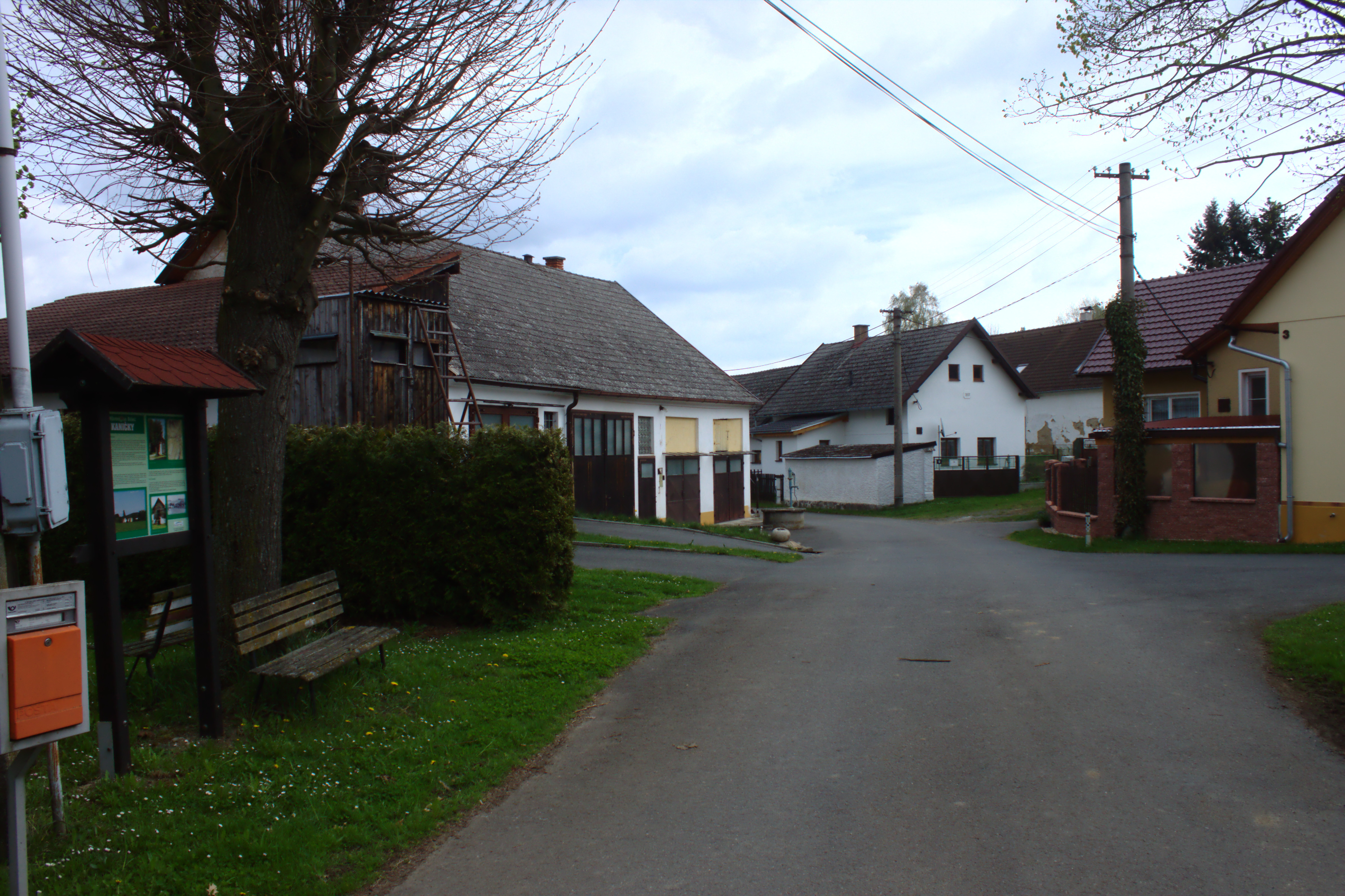 A common in the village of Kaničky, Plzeň Region, CZ